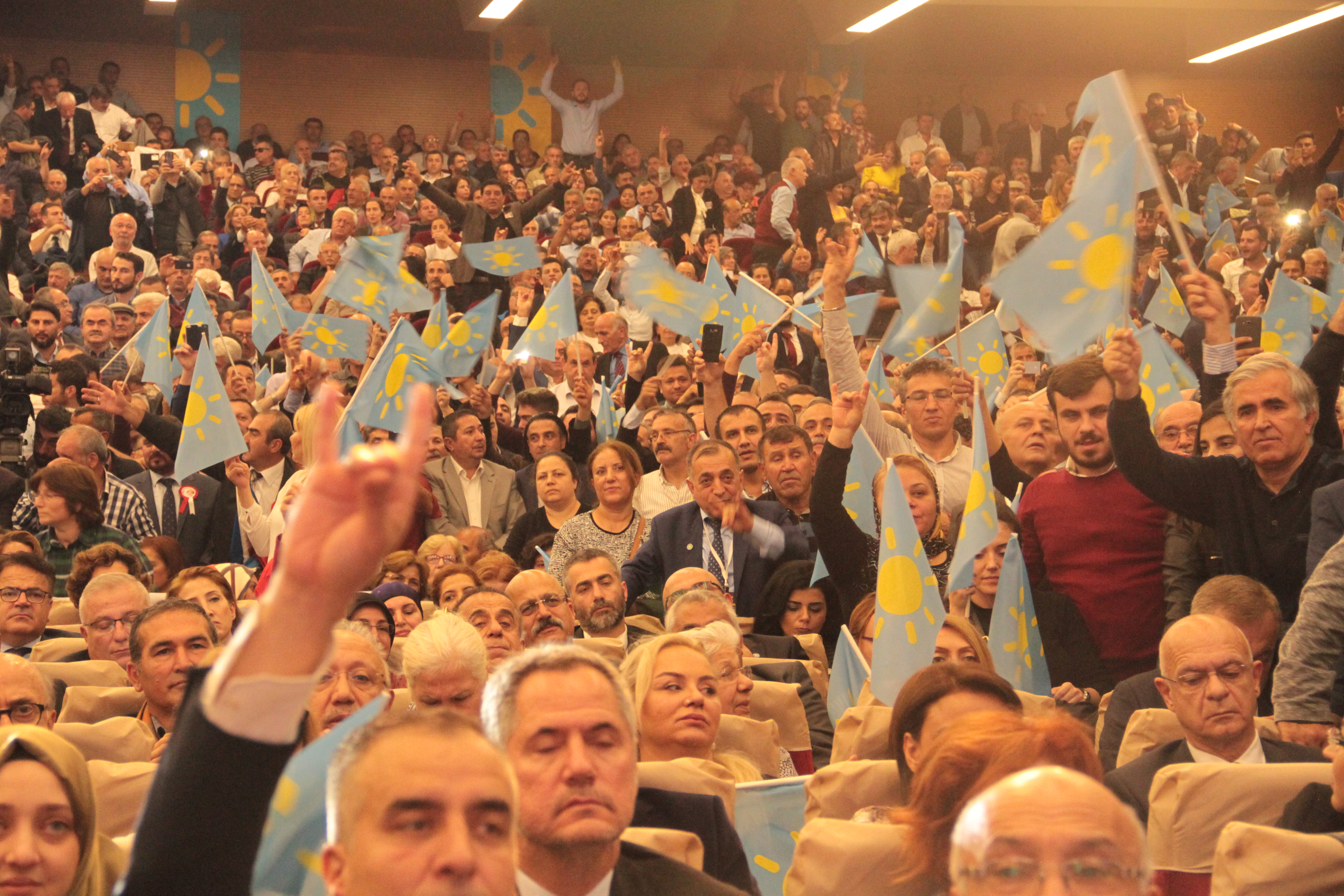 İYİ Party leader Meral Akşener making a speech at her party's first congress